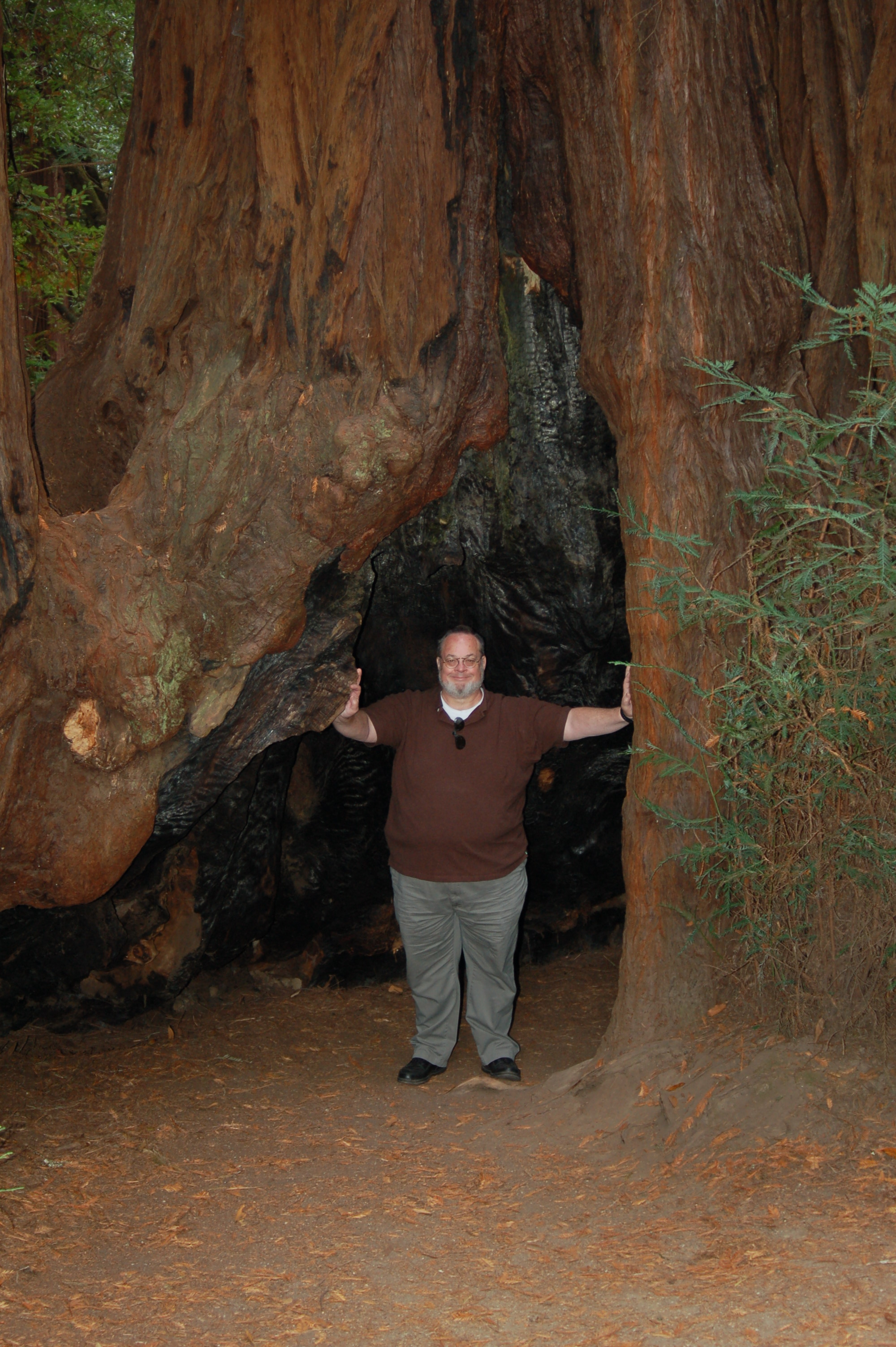 Henry Cowell Redwoods State Park, Redwood Grove. Base of a Coast Redwood Sequoia sempervirens showing a 3 m tall burn scar from an old lightning strike. Notice the rounded "healing" growth to left.